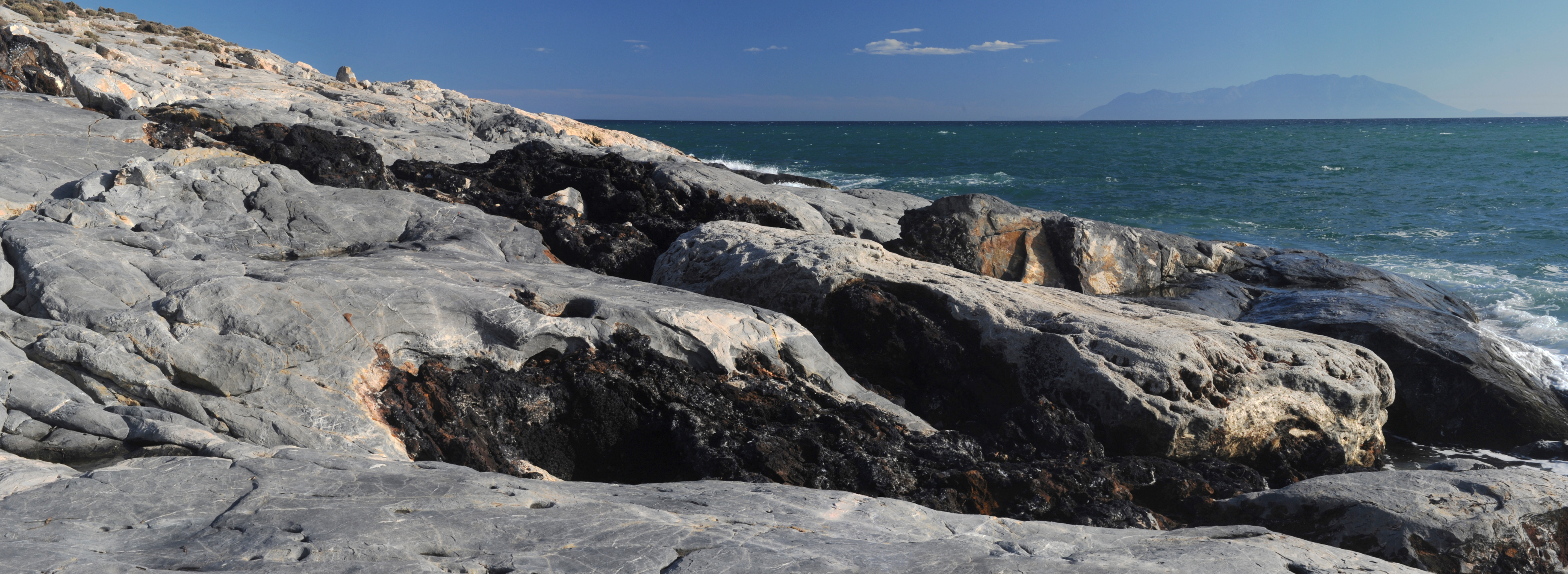 Iron ore veins and beds, Marmaritsa, Rhodope, Thrace, Greece.